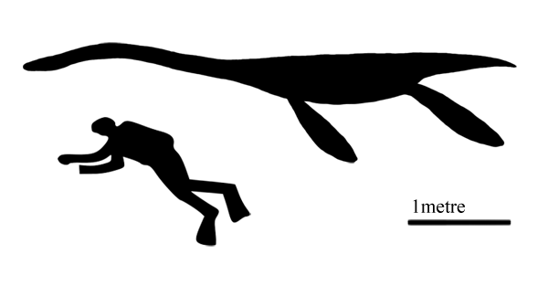 Plesiosaurus with a human to scale.